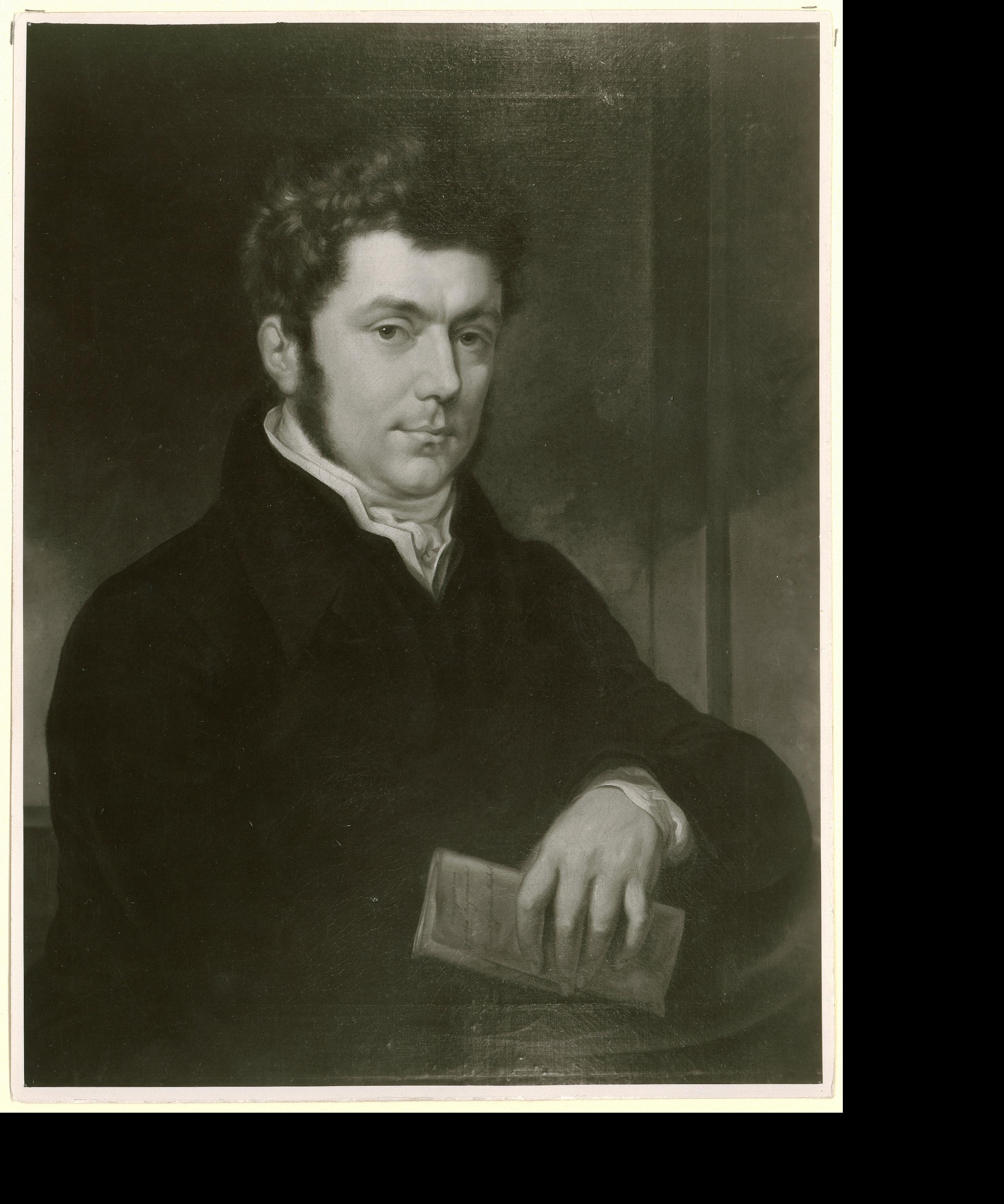 Photographic copy of an oil painting portrait of Sir James Hurtle Fisher, South Australian pioneer.